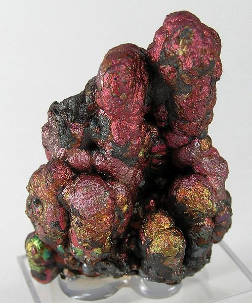 Goethite Locality: Filón Sur Mine, Tharsis, Alosno, Huelva, Andalusia, Spain (Locality at ) Size: 5.0 x 3.5 x 3.1 cm. From an incredible recent find, this amazingly iridescent and colorful goethite, which formed stalactitically, has botryoidal form on the surface which reflects its pink, red, gold, orange and other colors in every direction. Even the black goethite botryoids are silvery bright.